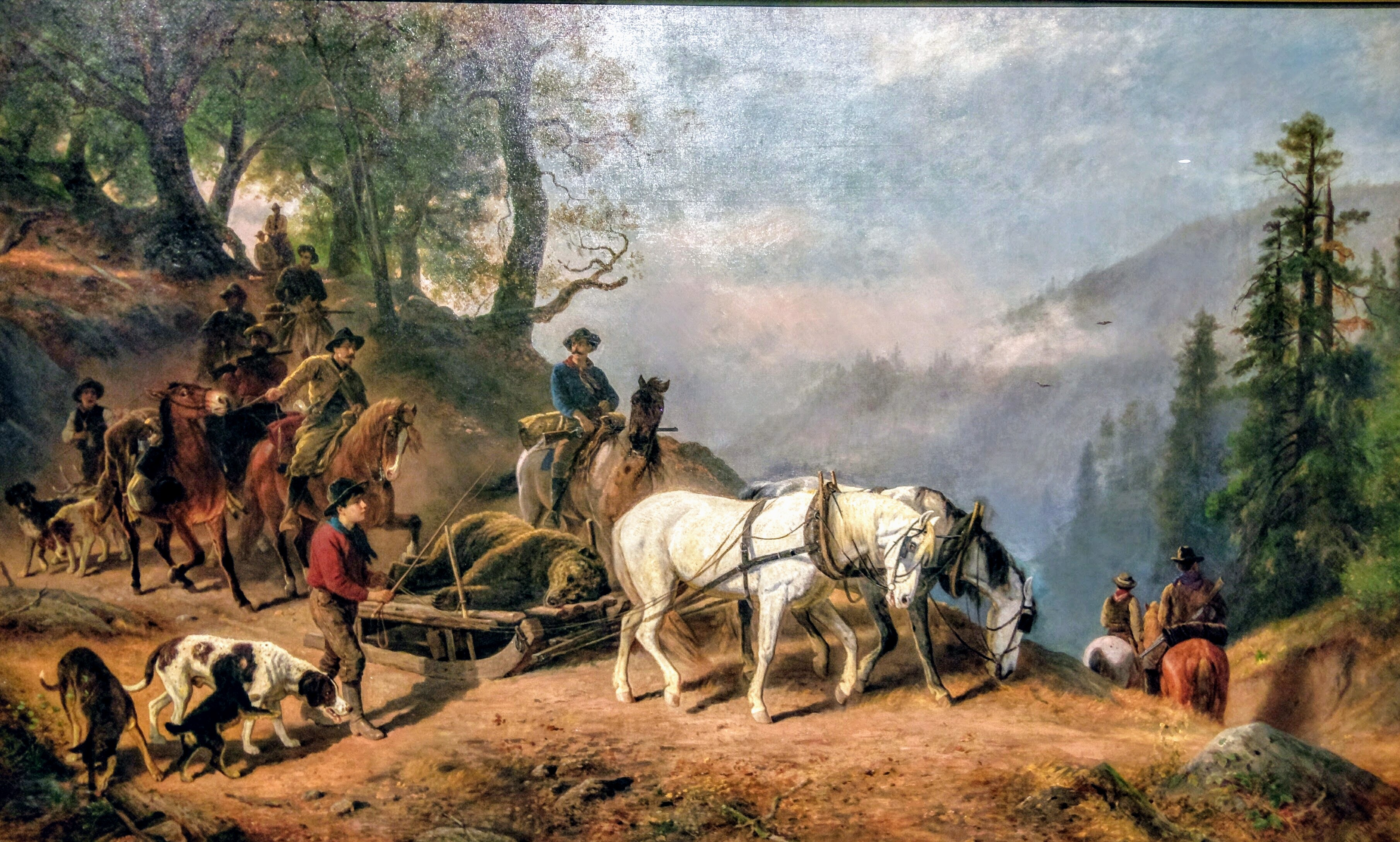 The 1882 painting "Return from the Bear Hunt" by William Hahn (1829 - 1887). In the collection of the Oakland Museum of California. Hahn based the painting on sketches he had made on a bear hunting expedition in Northern California. Photo by Jim Heaphy.